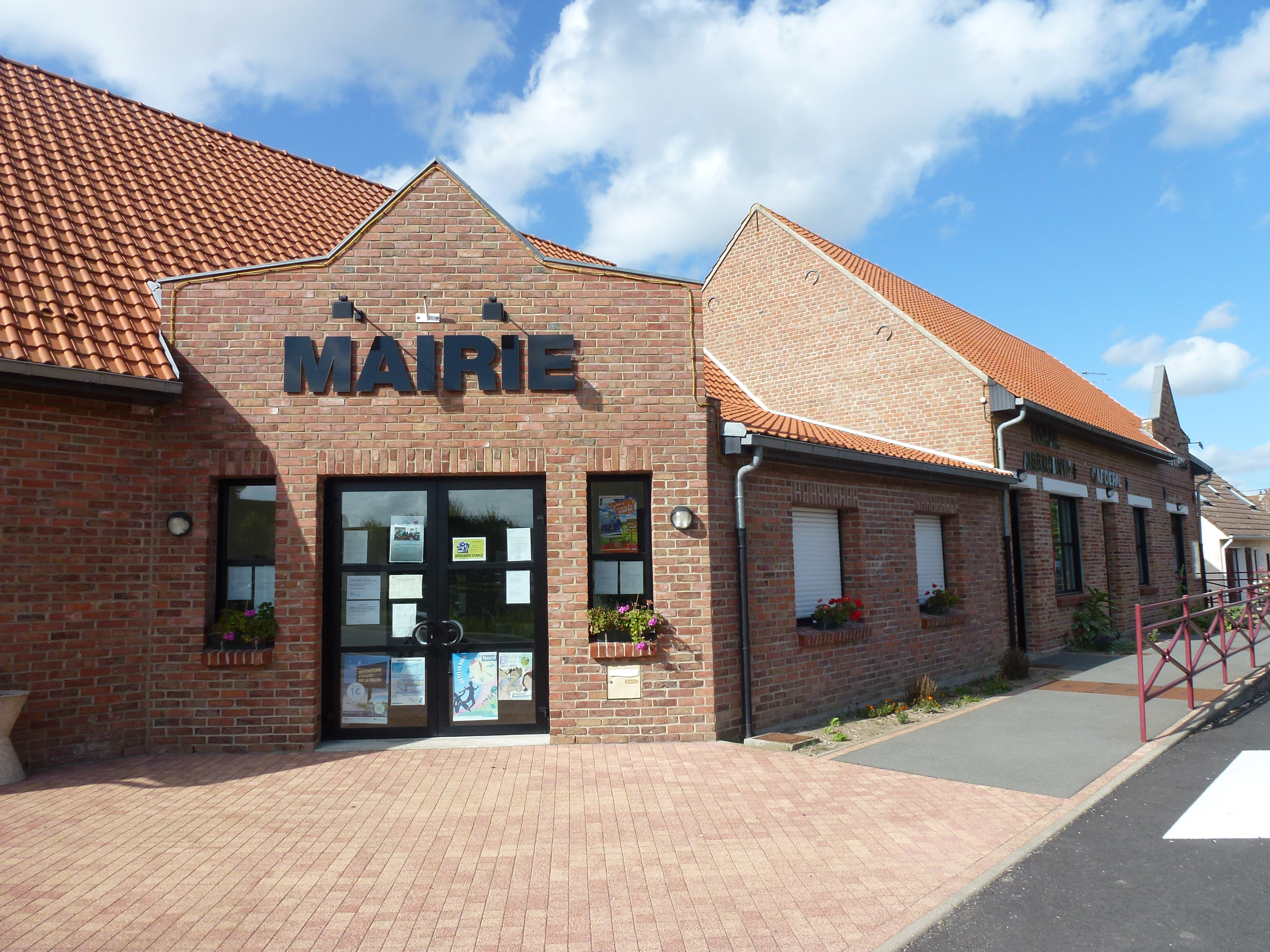 Staple (Nord, Fr) mairie